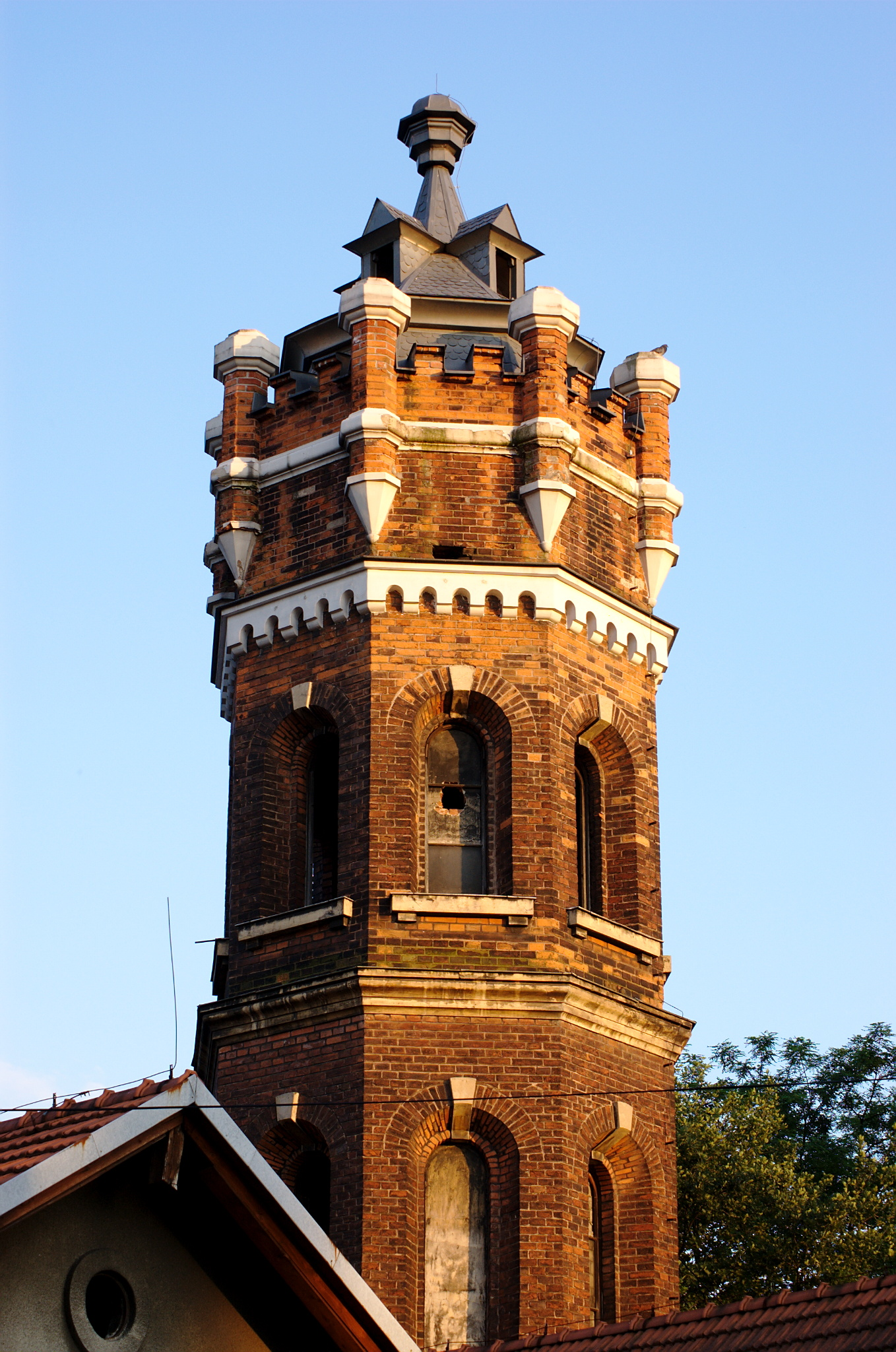 Water tower in Prokocim, Kraków (Poland)